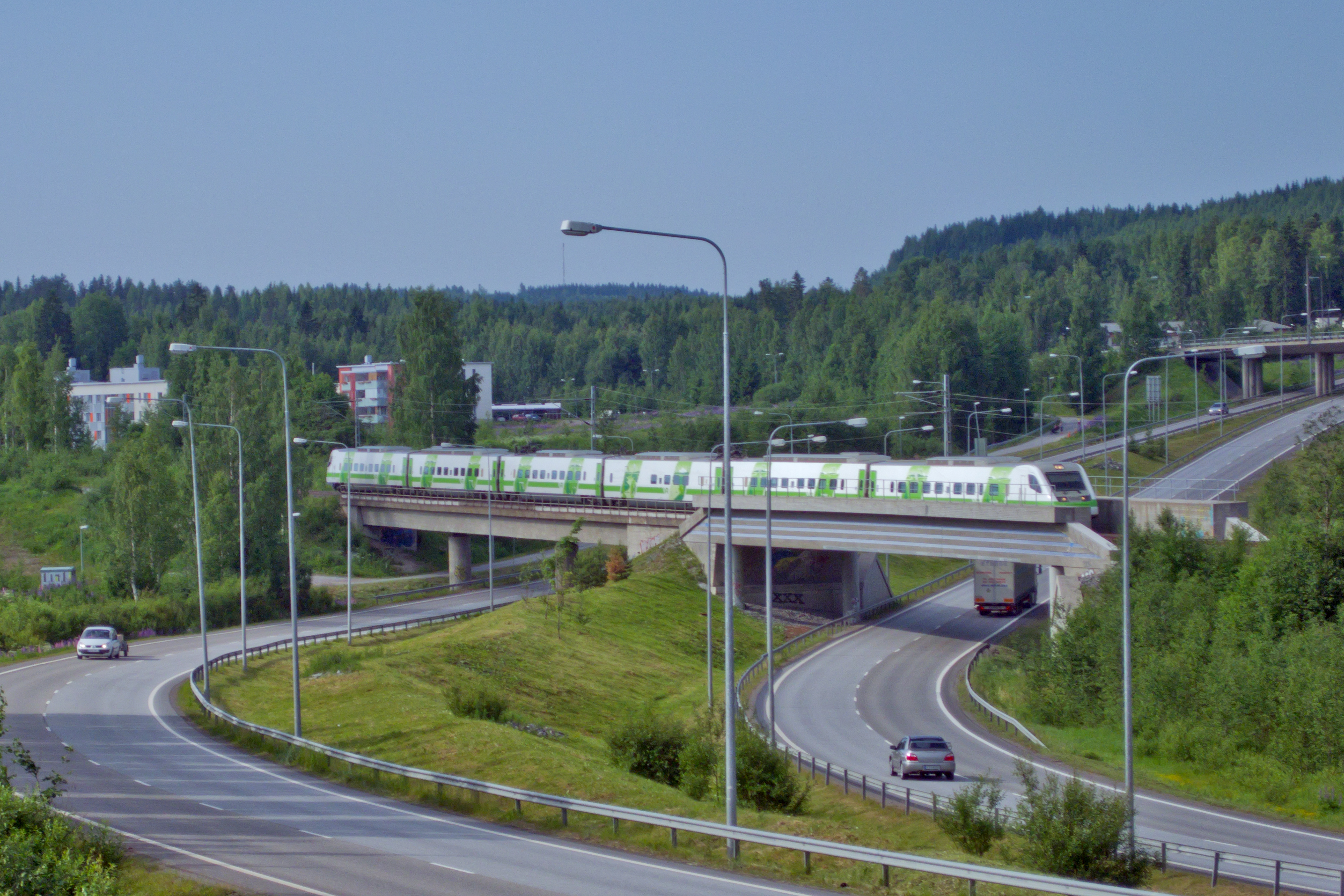 VR Class Sm3 Pendolino number 7x01 passes Pumperinmäki at Keljo, Jyväskylä, Finland. Train number S81.